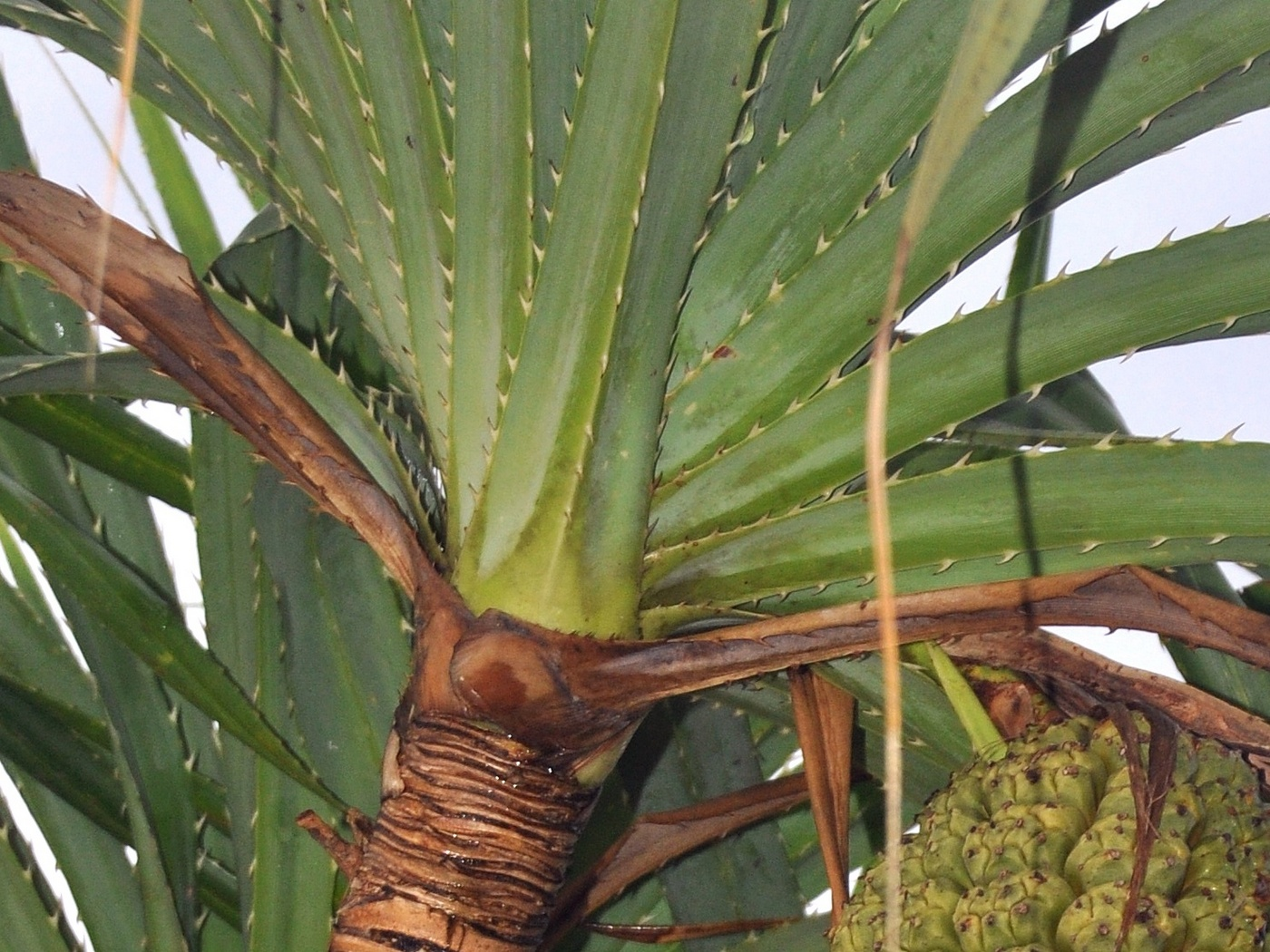 Pandanus odorifer; underside of leaves, to show the recurved, white spines at the midrib of lower half of leaves. From southern Bangka Island, Indonesia.